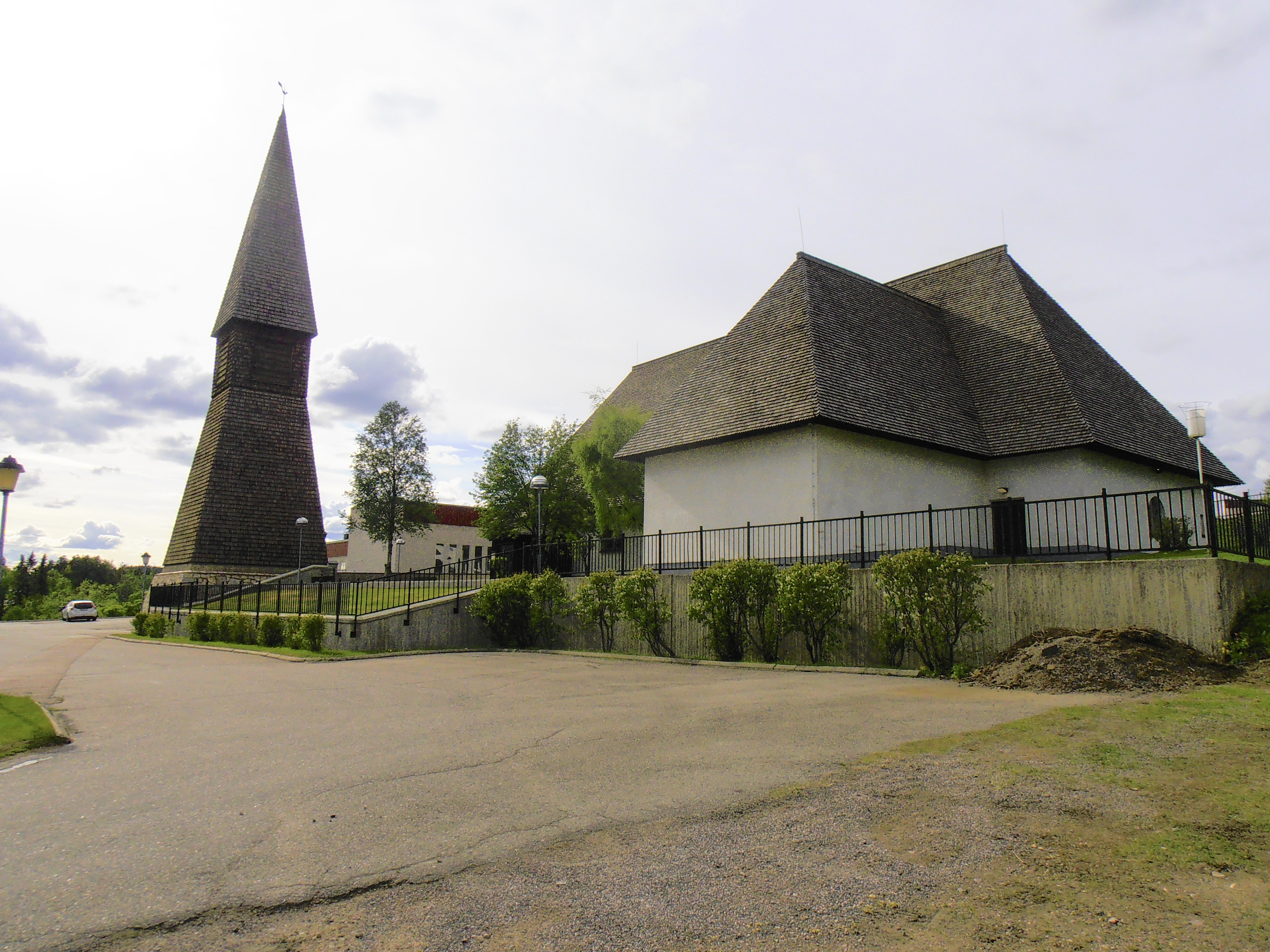 The All Saint's Church, Malmberget